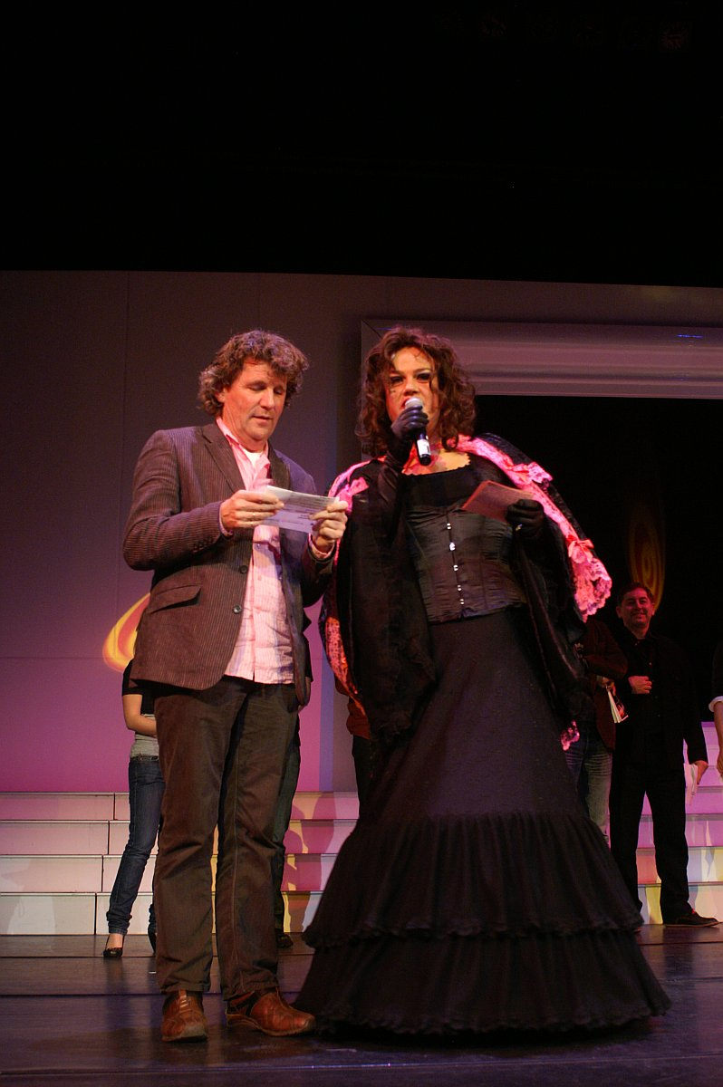 Gé Reinders next to Tessa International, presenter of the COC Songfestival 2008. Reinders was a VIP-jury member at the festival.